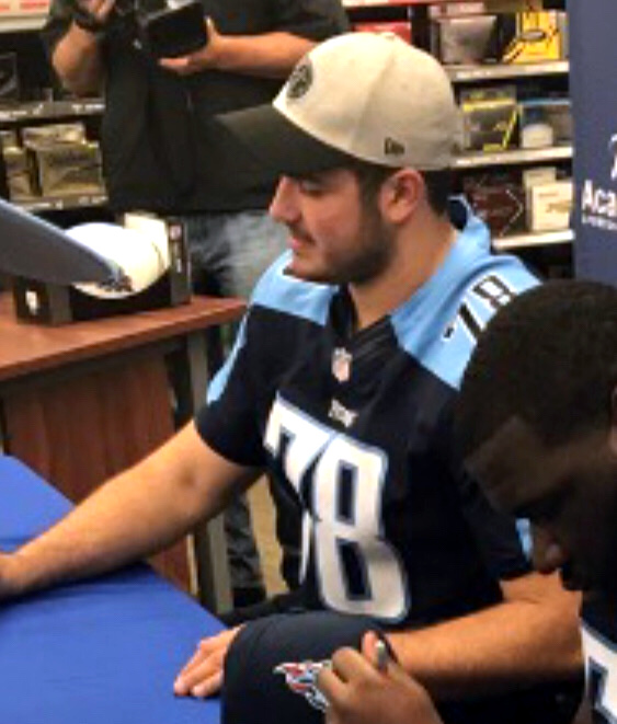 Titans offensive tackle Jack Conklin signing autographs in 2017.